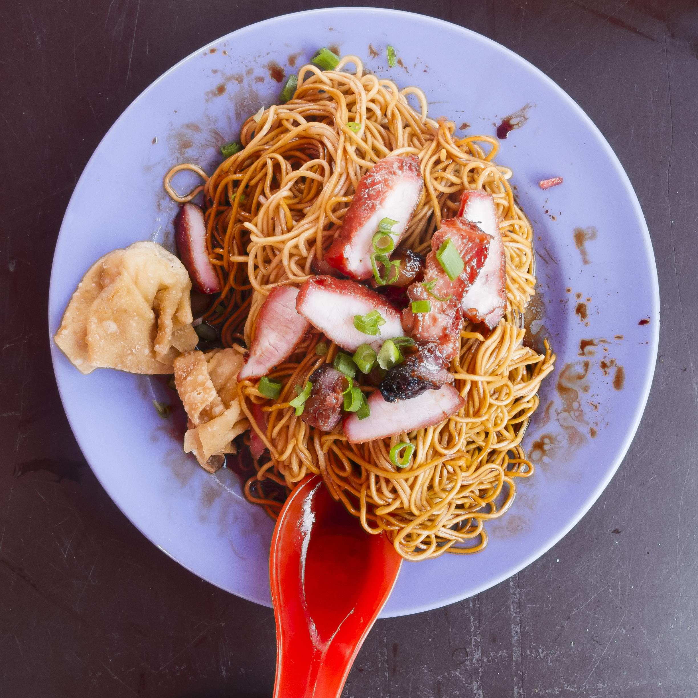 Gombak, Malaysia: Tuaran Mee - a dish from Sabah in East Malaysia - served in a food stall along the road in Peninsula Malaysia